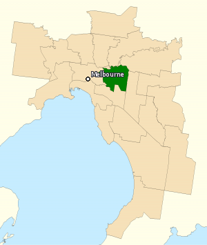 This image incorporates data that is: © Commonwealth of Australia (Australian Electoral Commission) 2009 Division of Kooyong 2010